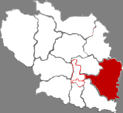 Location of Pingshun county in Changzhi City, China